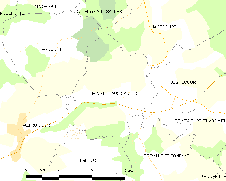 Map of French municipality Bainville-aux-Saules